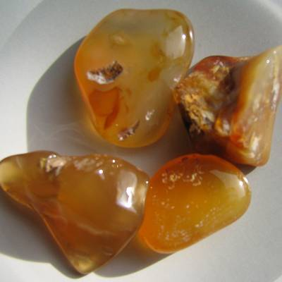 tumbled agates (central US)